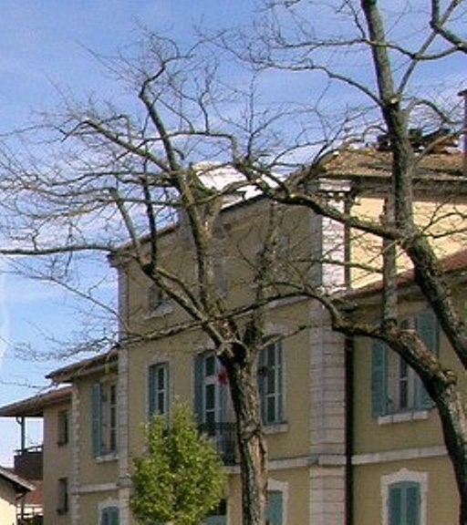 Town hall of Viriat, Ain.